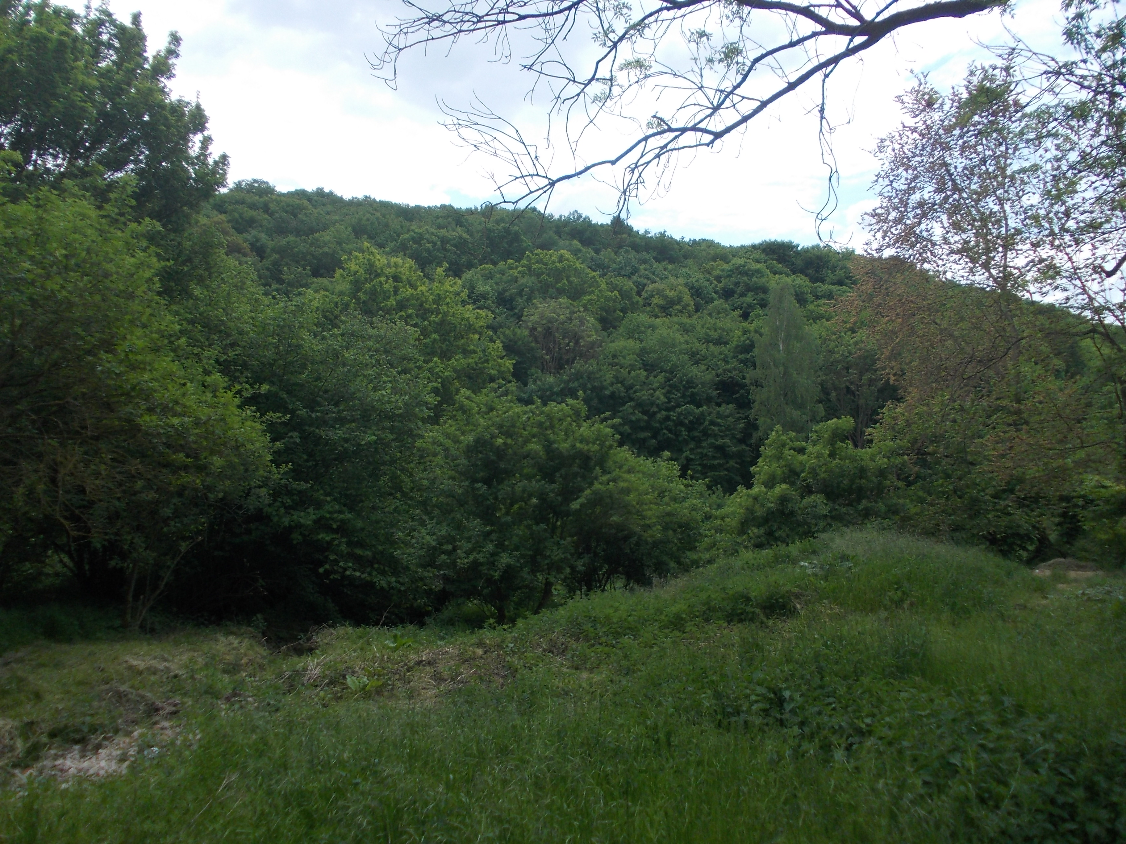 Hirschrodaer Graben nature reserve (Balgstädt, district: Burgenlandkreis, Saxony-Anhalt)